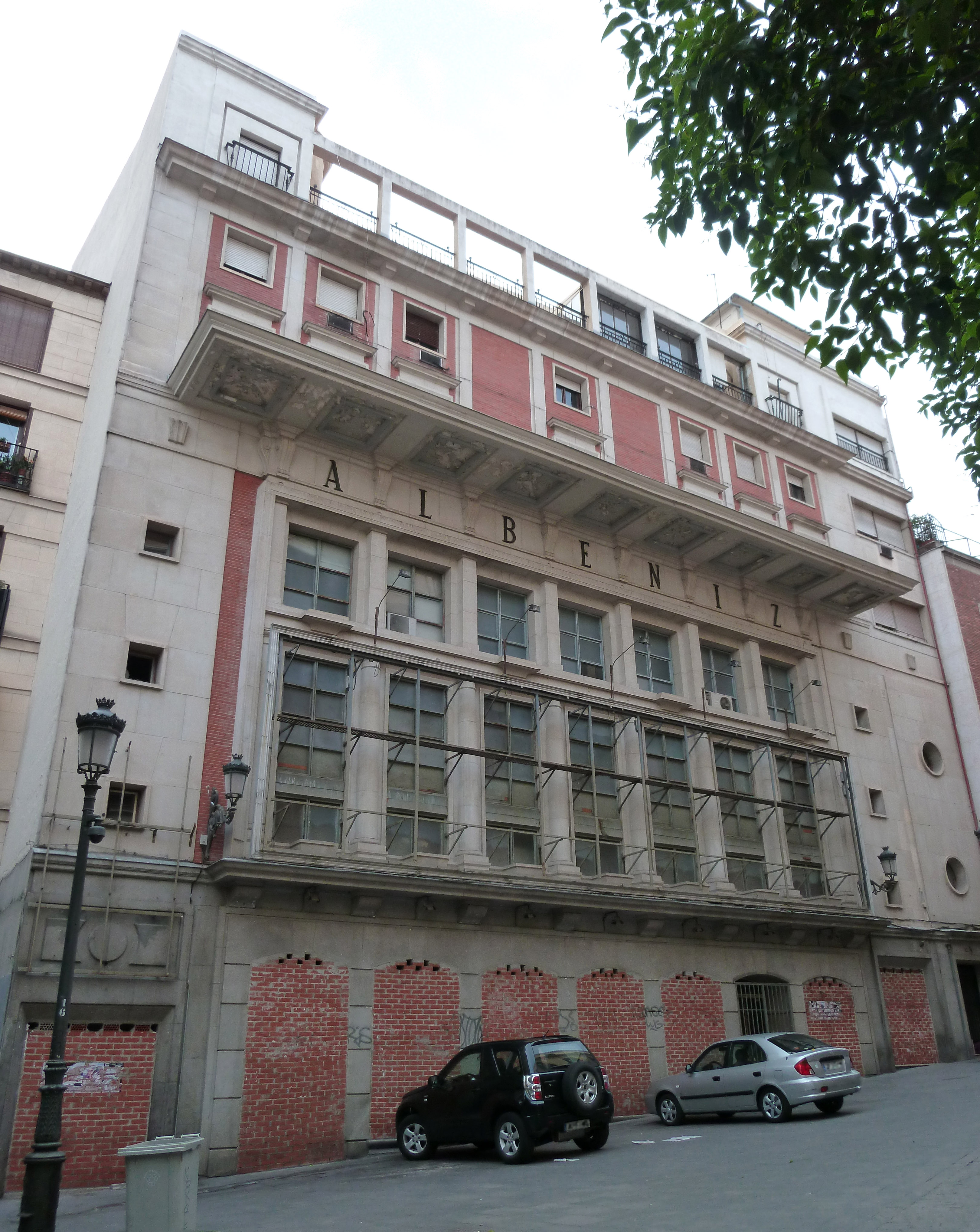 Façade of Teatro Albéniz (a former theater), at 11 Calle de la Paz (street) in Centro district in Madrid (Spain). Projected in 1942 by José Luis Durán de Cottes and Enrique López-Izquierdo Blanco, and built between 1942 and 1947.